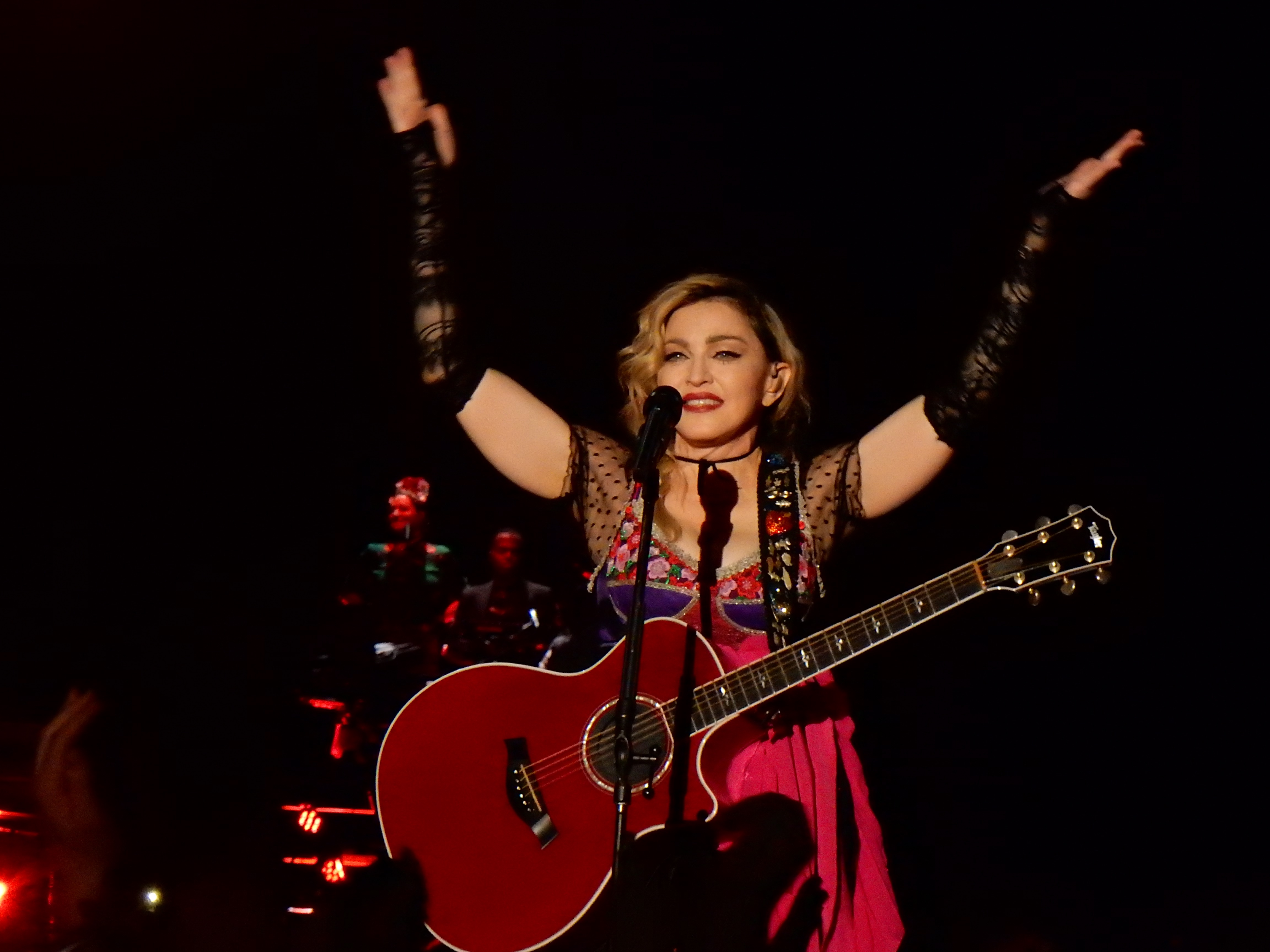 Madonna - Rebel Heart Tour 2015 - Paris 2